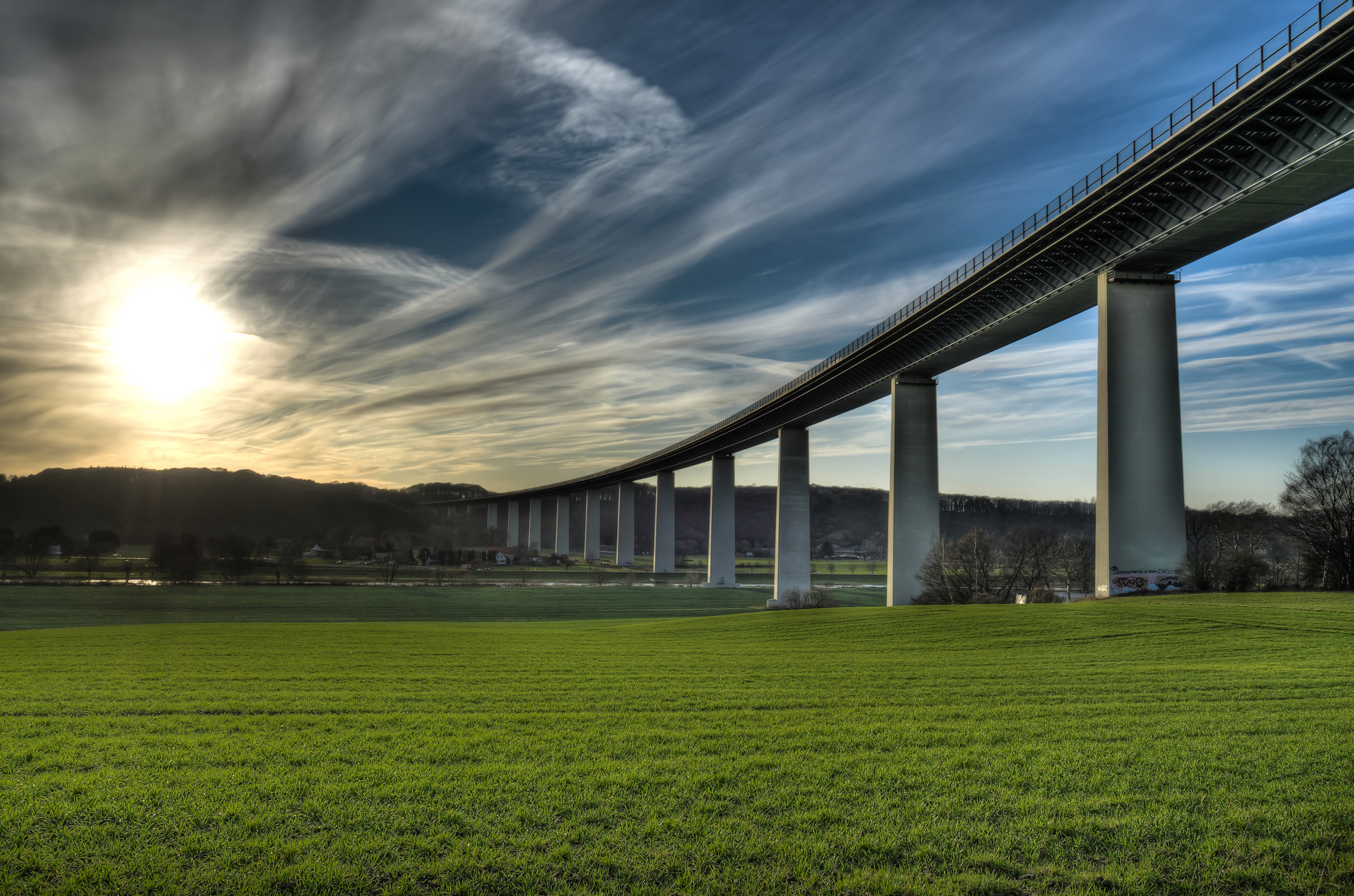 The bridge "Mintarder Ruhrtalbrücke" in Mülheim an der Ruhr is an impressive landmark in the Ruhr valley connecting the cities Düsseldorf and Essen through a motorway.